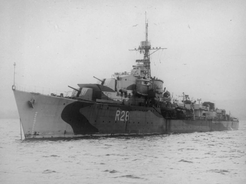 Photograph of British destroyer HMS Verulam at anchor in the Clyde.